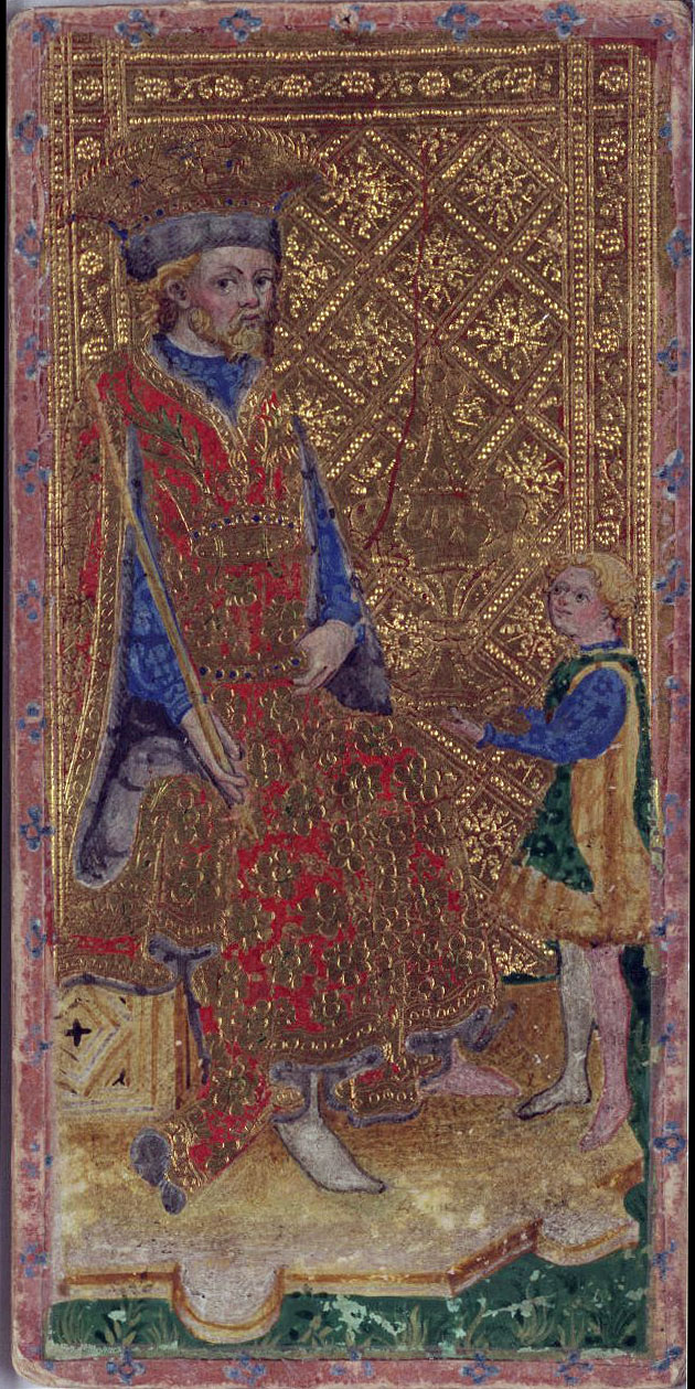 King of Cups (Hearts) from the Visconti tarot deck